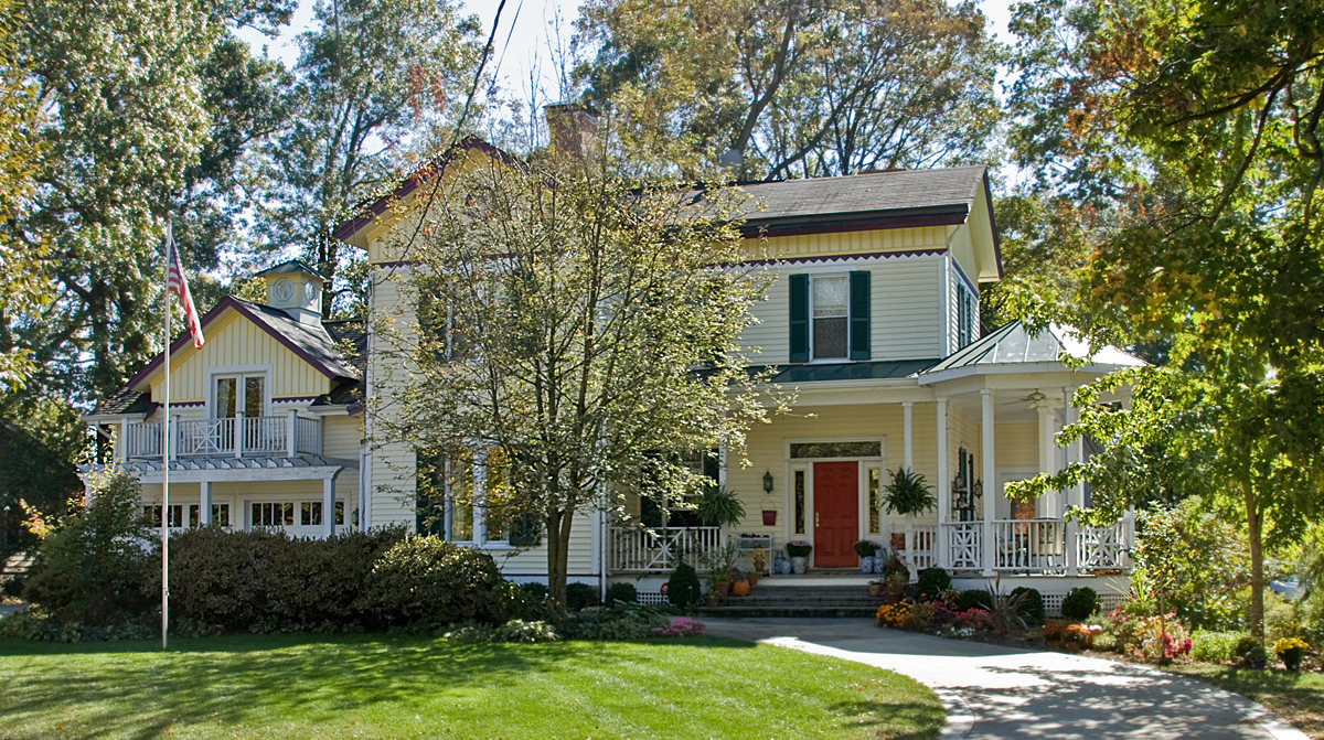 Jacob Bromwell house in Wyoming, OH. Photo by Greg Hume